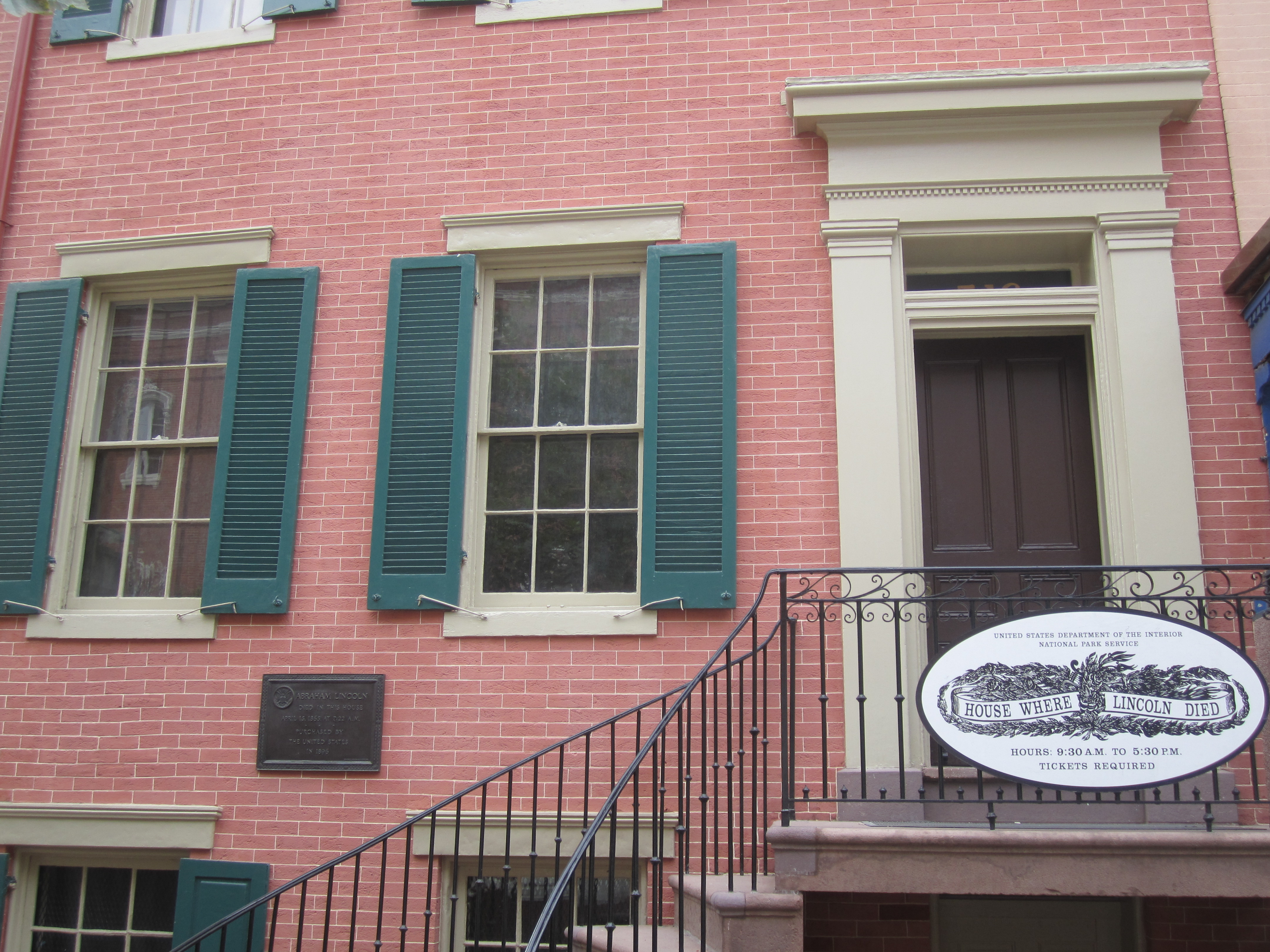 I took photo with Canon camera of Petersen House in Washington, D.C. Public domain.